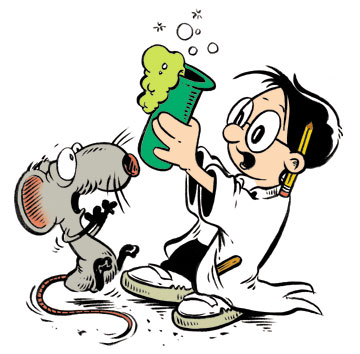 Image of Brillian Mind of Edison Lee cartoon characters